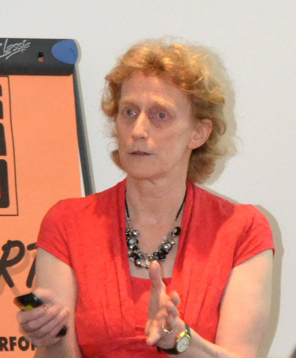 Athene Donald at the NIMR Wikipedia edit-a-thon on 25 July 2013.